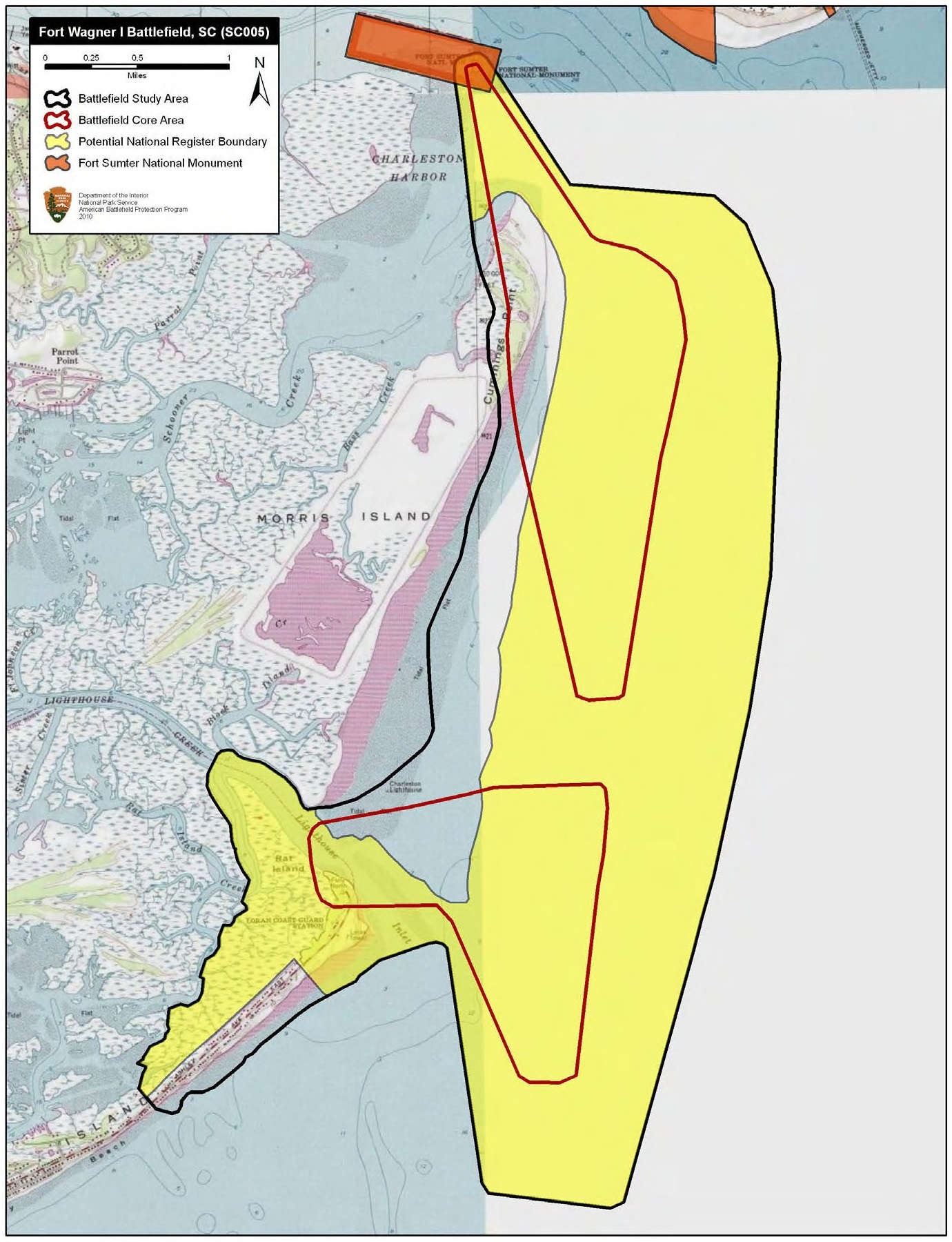 Map of battlefield core and study areas. The ABPP revised the 1993 Study Area to reflect the coastline of Morris Island as it was shaped in 1863. The revised Study Area also includes the main shipping channel of Charleston Harbor and Light House Inlet (both used by attacking US Naval forces), the Folly Island camps and batteries, and the angled field of fire from Fort Sumter. The ABPP modified the northern Core Area to represent the ranges of heavy artillery fire from US vessels in the harbor, and from Fort Wagner and Fort Sumter. The southern Core Area includes the field of covering fire from US Army batteries along the northern edge of Folly Island, and fields of fire associated with US Navy vessels in the harbor channel and ships landed with BG Strong's Brigade on the southern tip of Morris Island.